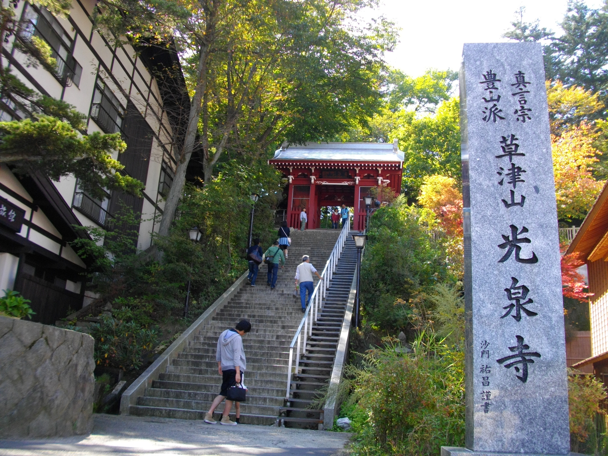 Entrance to Kosen-ji (Kusatsu)